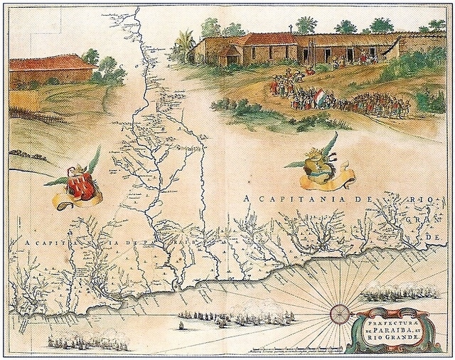 MARCGRAF, George. Map of Paraíba and Rio Grande do Norte, 1643. Ricardo Brennand Institute collection, Recife, Brazil. Part of the cartographic set executed in 1643 for Barlaeu's book with illustrations by Frans Post.